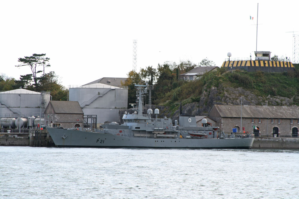 Irish Navy ship LE Emer at Haulbowline